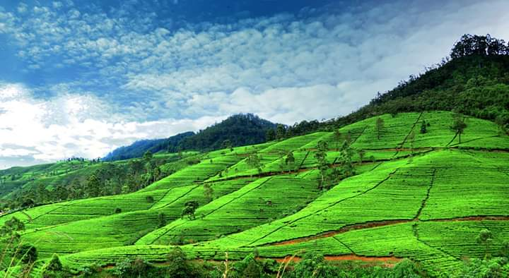 This picture showing nan-oya (edinburgh estate) SRI LANKA.